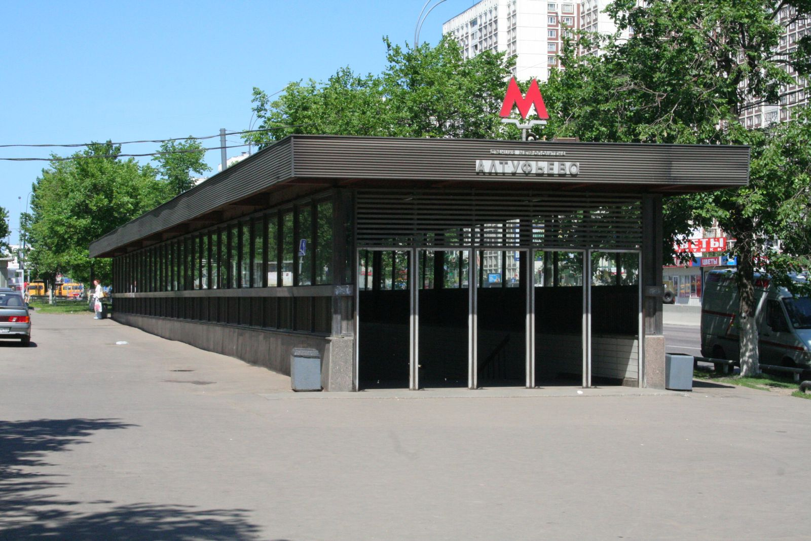 South-west Entrance to Altufievo metro station. Situated at Altufievskoe highway